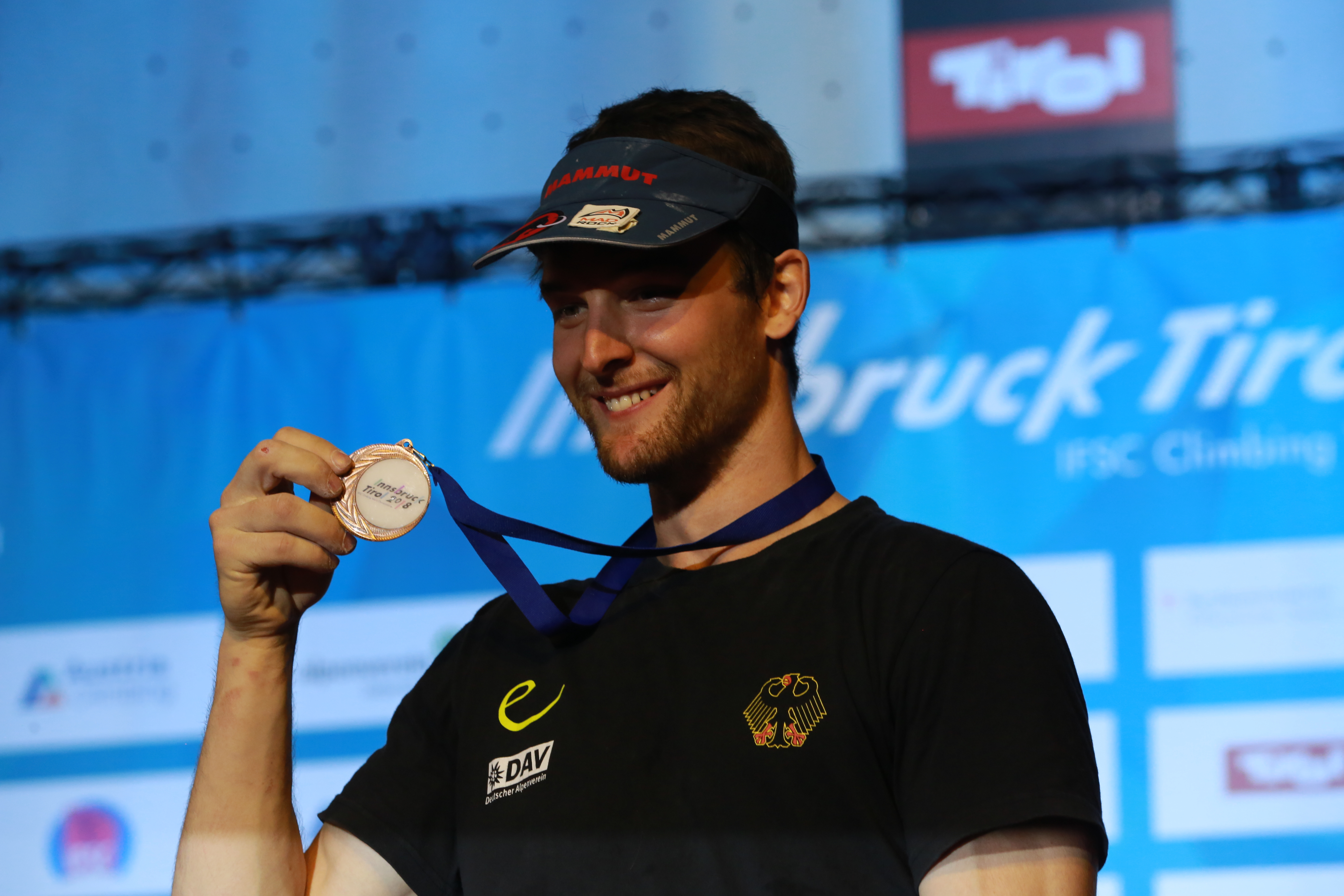 Climbing World Championships 2018 Combined Final Man winners